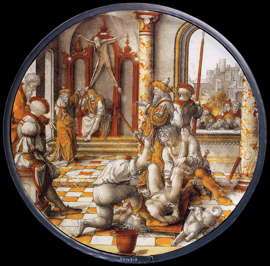 The Judgment of Cambyses Alternate title: Pane of stained glass with the Judgment of Cambyses.[1]